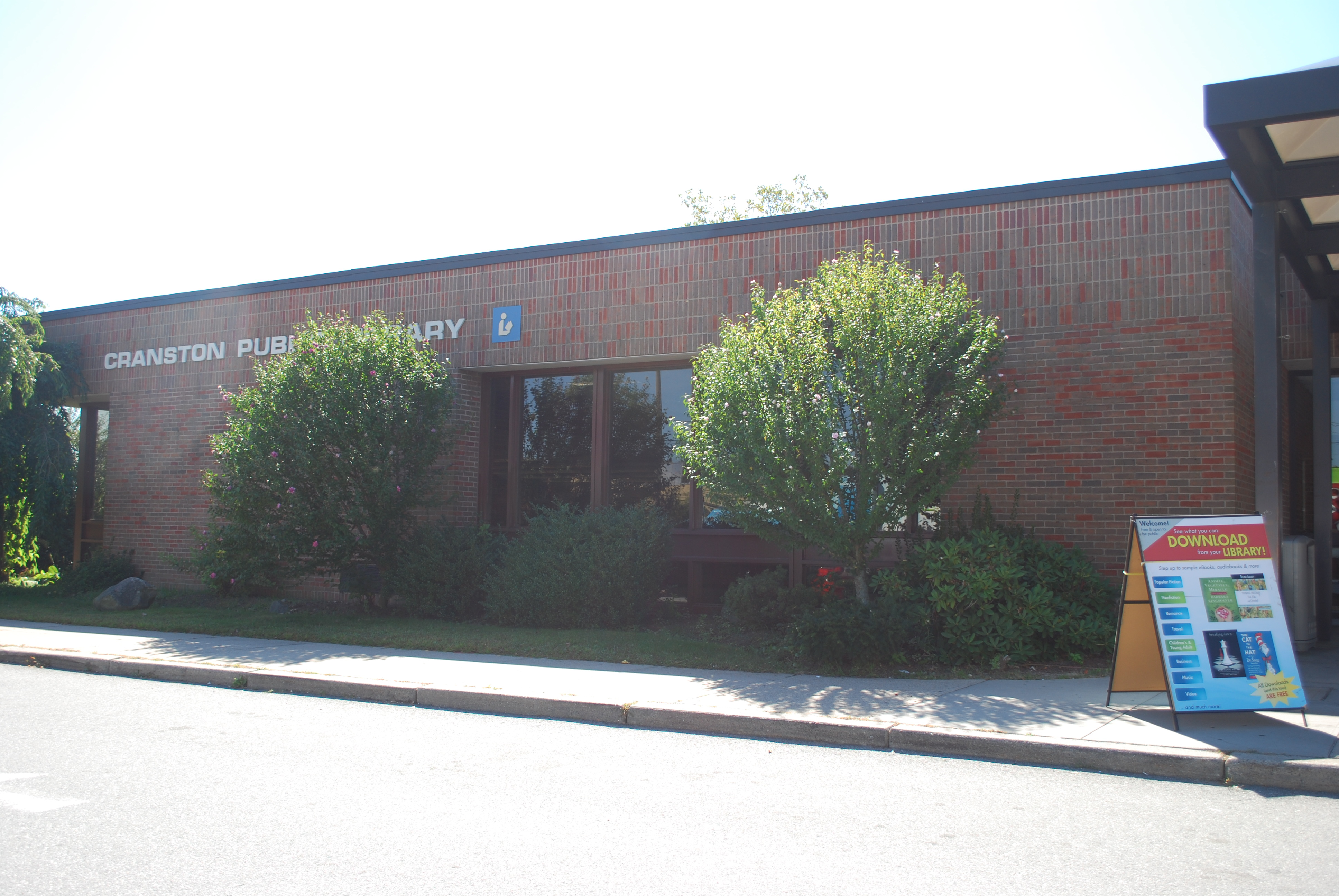 Cranston Public Library Cranston, RI Sept. 21, 2009 Ocean State Libraries - Digital Bookmobile Download at